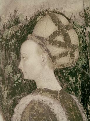 A portrait of Maria Comnena[1][2] (died 1439) Greek princess of Trebizond, third wife of Byzantine Emperor John VIII Palaiologos (1425-48), from the painting entitled “St. George and the Princess of Trebizond” by Antonio Pisani Pisanello